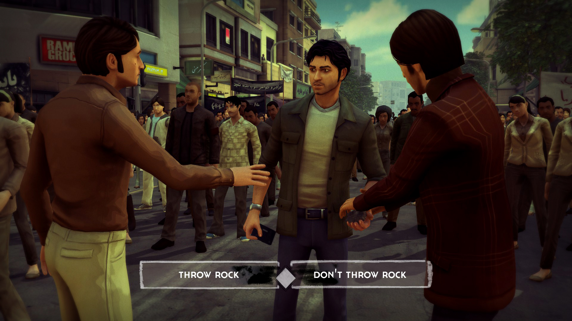 Screenshot from 1979 Revolution: Black Friday press kit